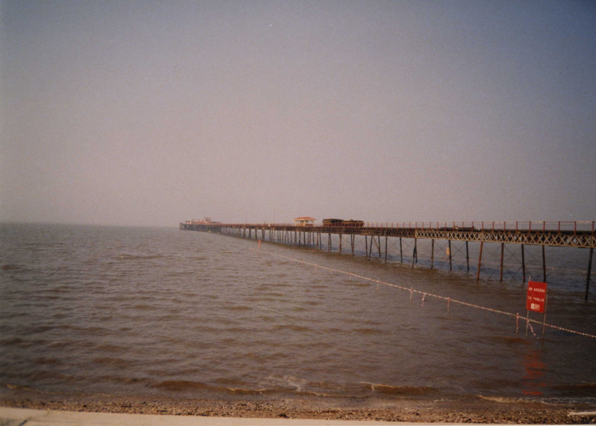 Southport Pier, England. Photo taken in 2000 using 35mm film camera. Digitally scanned in November 2009.